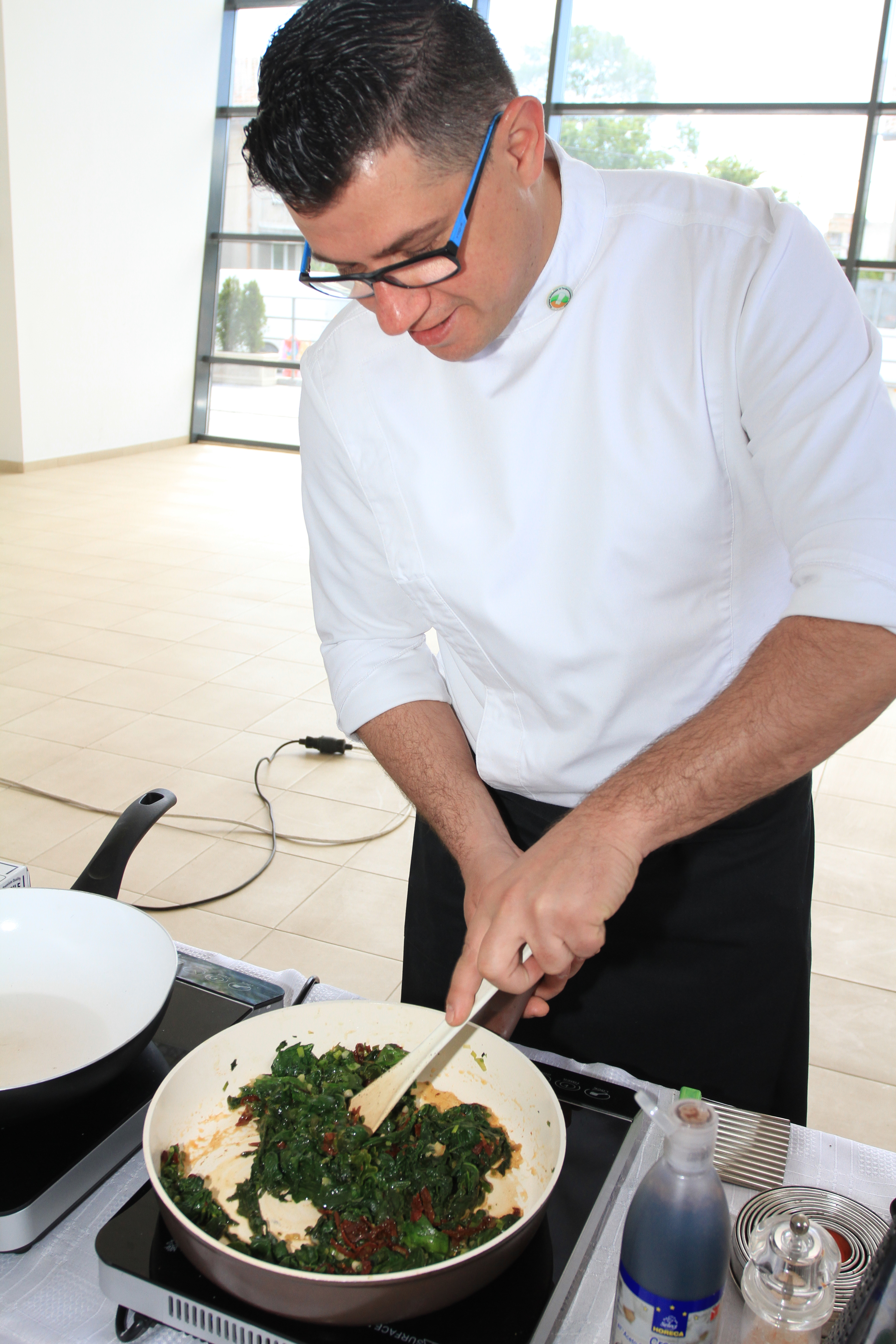 A Bulgarian professional chef prepares a traditional dish of spinach and white cheese at the Folklore Festival, Slivnitsa, Bulgaria. This photo has been taken in the country: Bulgaria